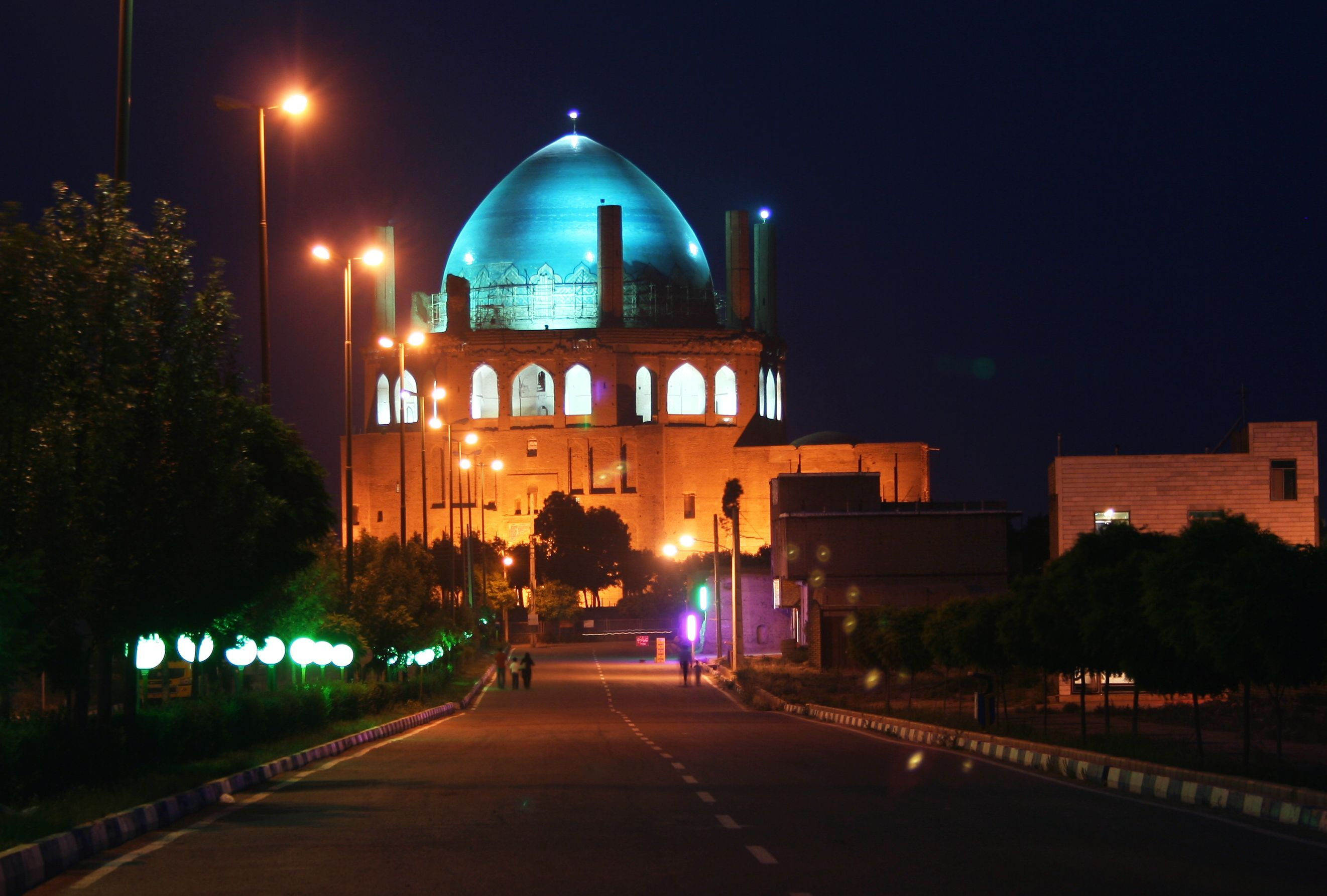 Soltaniyeh Dome, second large adobe structure after Arg-é Bam; in Iran